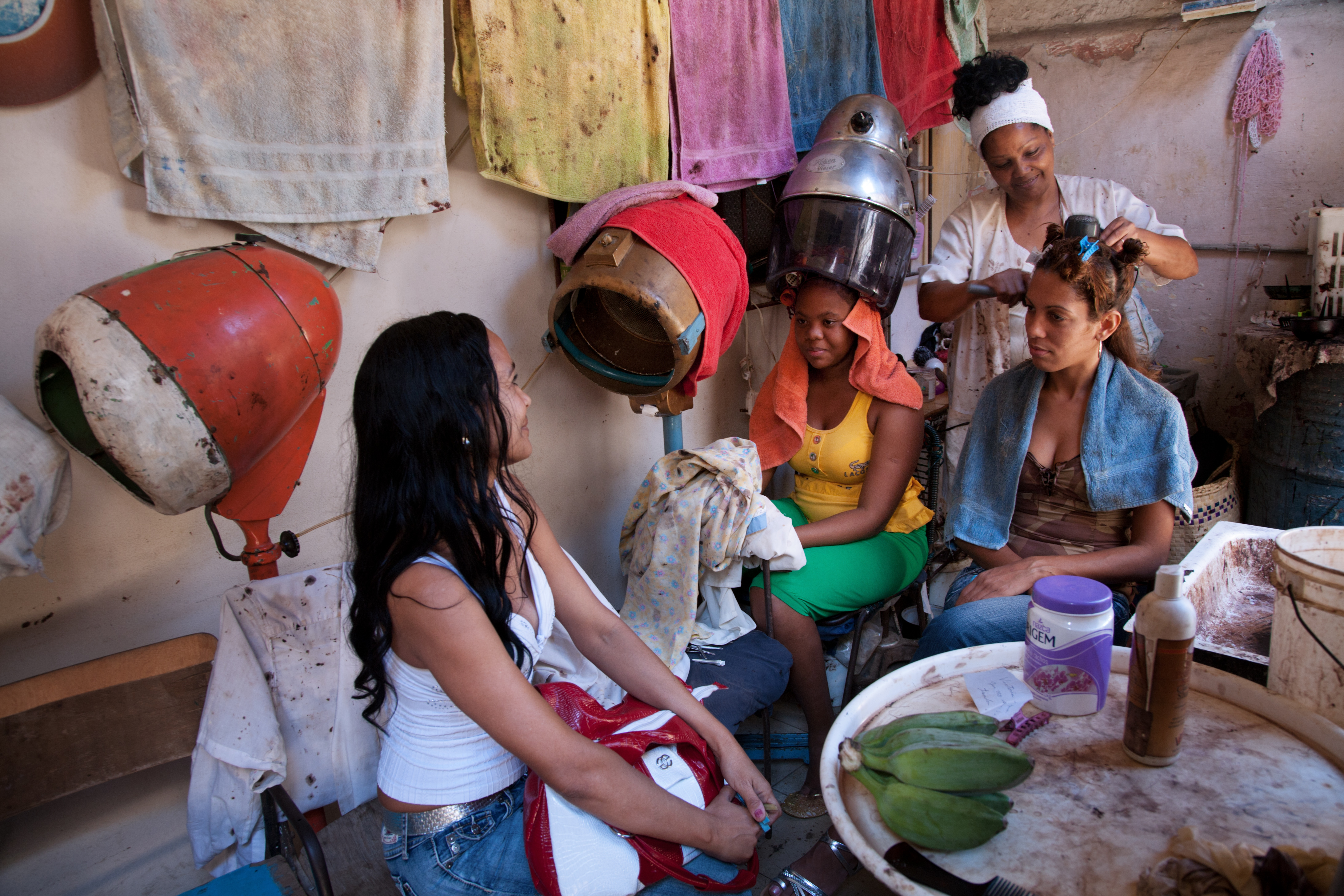 Beauty salon. Havana (La Habana), Cuba